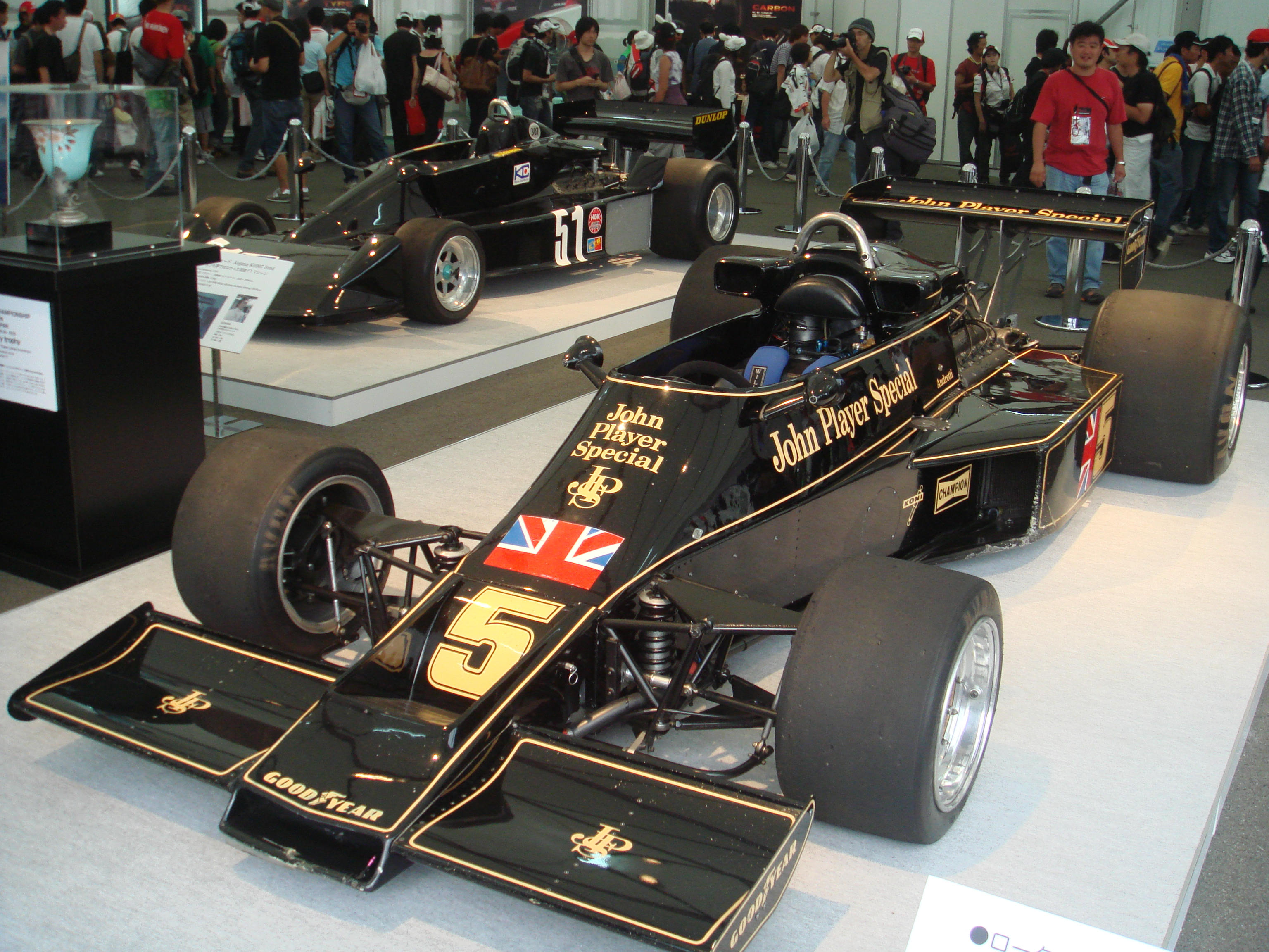 A Lotus 77 on display at the Japanese Grand Prix